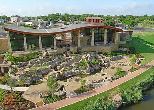 San Angelo Texas Visitors Center